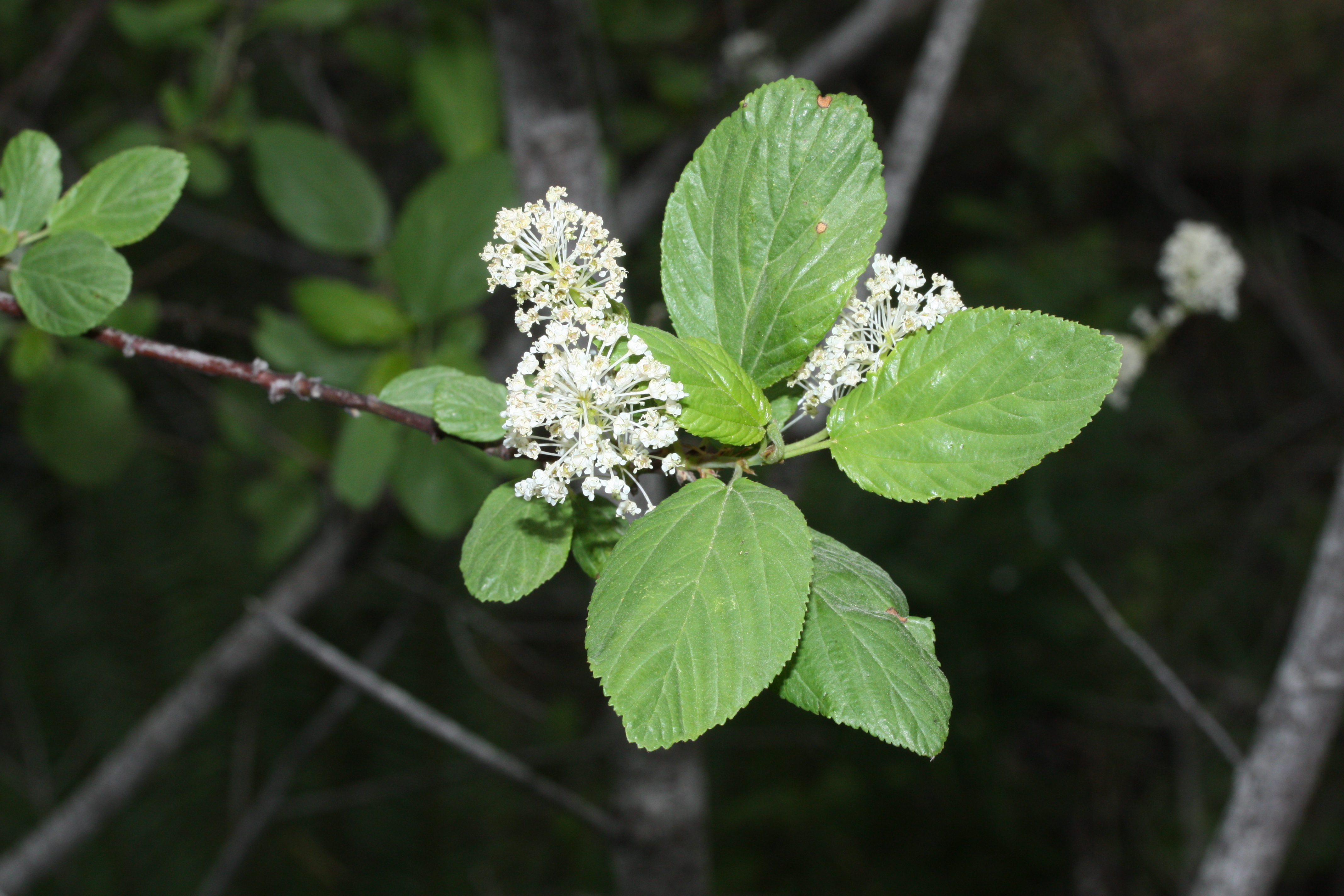 Redstem Ceanothus, Oregon Teatree